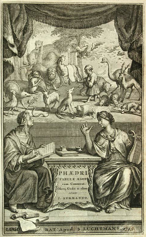 Phaedrus (15 BC-50 AD) Phaedri, Aug. Liberti, Fabularum Aesopiarum libri V. Cum integris commentariis Marq. Gudii, Conr. Rittershusii, Nic. Rigaltii, Is. Neveleti, Nic. Heinsii, Joan. Schefferi, Jo. Lud. Praschii & excerptis aliorum. Curante Petro Burmanno. Leiden: Samuel Luchtmans and Son, 1745. The Dutch scholar Pieter Burman (1668-1741)—in Latin Petrus Burmannus, and also known as "the Elder" to distinguish him from his nephew of the same name—first published an edition of Phaedrus' Fables in an octavo format in Amsterdam in1698. This was followed by two others in octavo and duodecimo formats published by Henricus Scheuleer in The Hague in 1718 and 1719 respectively. However, Burman's best known edition is the 1727 quarto published by Samuel Luchtmans in Leiden. It incorporated the notes by the famous English philologist Richard Bentley (1662-1742)! (Schweiger, 1834: 733-8; Dibdin, 1827: 281). Regarding the1745 octavo edition printed in Leiden, of which our Collection Highlight is a copy, Luchtmans presents it as being the third edition (Ed. tertia) coming after those of 1698 and 1718, and as being corrected (Emendatior) and augmented (aucta) by the rich index of the quarto edition of 1727. Indeed, a clever way to avoid the fact that this edition is basically a reprint of the quarto! Apart from the title page, see the publishers' preface Aequo Lectori. S.D.S. Luchtmannus. Clearly, the book addresses not the needs of the young student learning the foundations of the Latin language, but the expectations of the future scholar interested in a deep philological examination of the text of the Fables. See, for instance, the image displayed below, where Phaedrus' verses are commented upon line by line, word by word. Even the text itself could be a challenge to young students, as Edward Harwood (1729-1794) observes in his View of the Editions of the Greek and Roman Classics (London: G. Robinson, 1782)